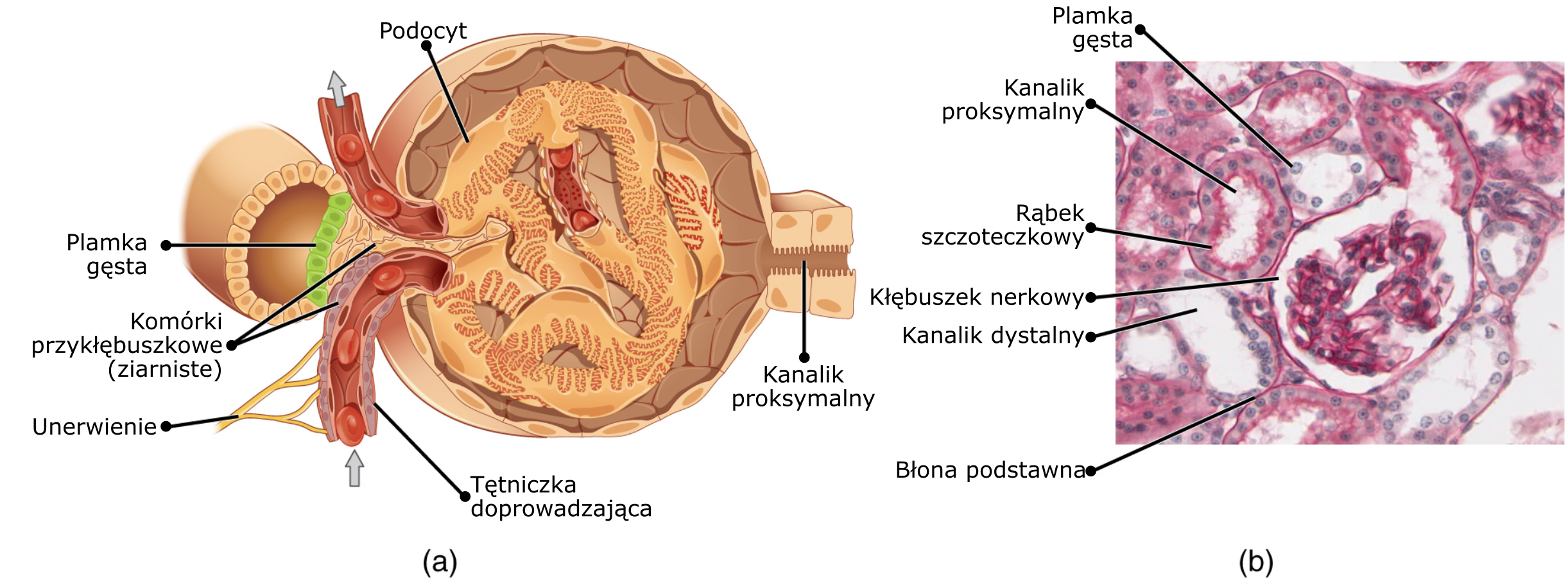 The JGA allows specialized cells to monitor the composition of the fluid in the DCT and adjust the glomerular filtration rate. (b) This micrograph shows the glomerulus and surrounding structures. (Micrograph provided by the Regents of University of Michigan Medical School © 2012)